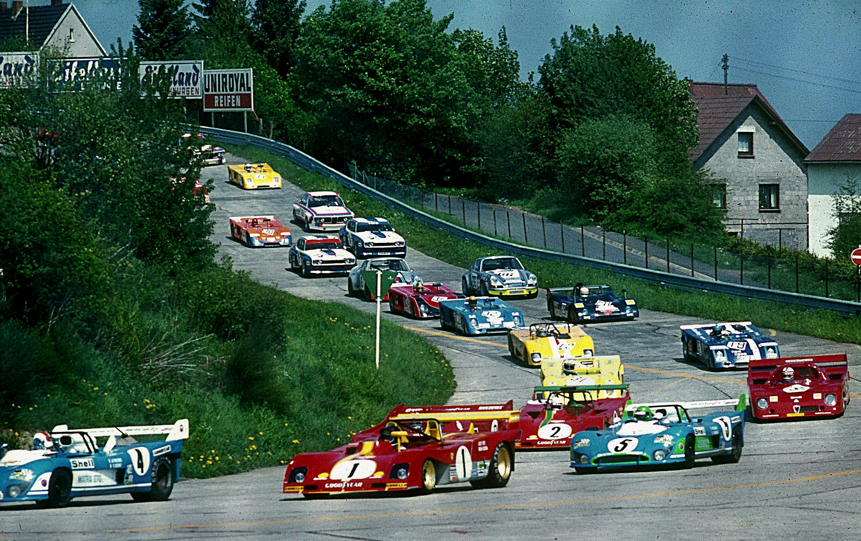 Introduction lap for 1000 km race on Nürburgring 1973